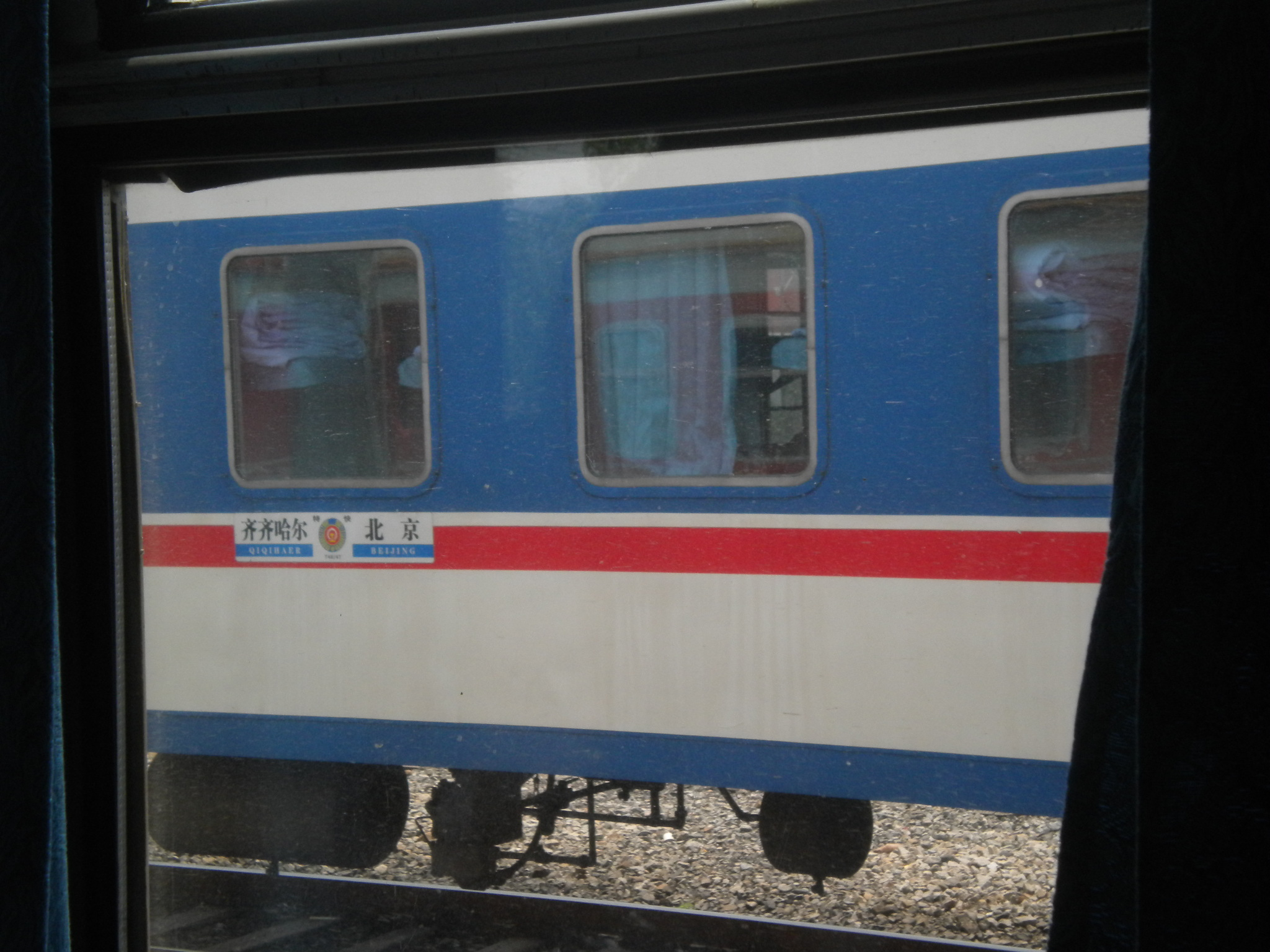 Many trains to the Northeast technically stop at Beijing East.